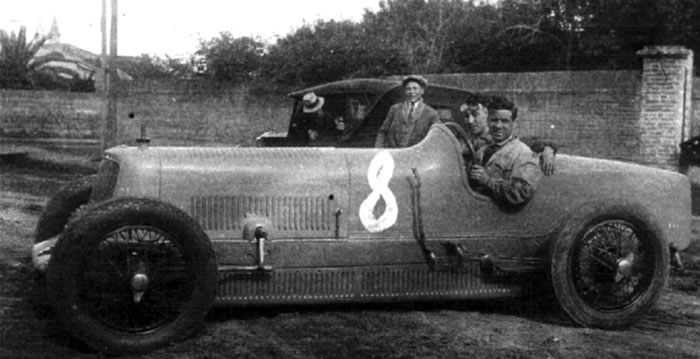 Domingo Bucci in Esperanza - Province of Santa Fe - 1927